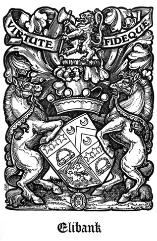 Coat of Arms of the Lord Elibank